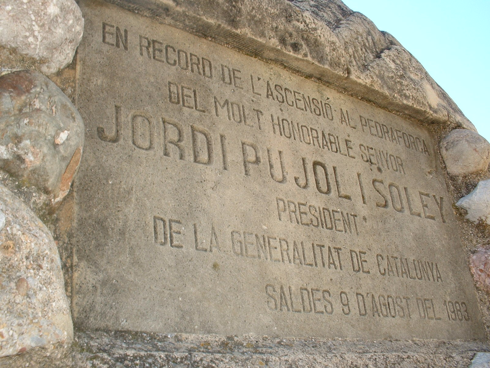 A conmemorative memorial to the climbing of the Pedraforca peak by the former president of Catalonia Jordi Pujol.